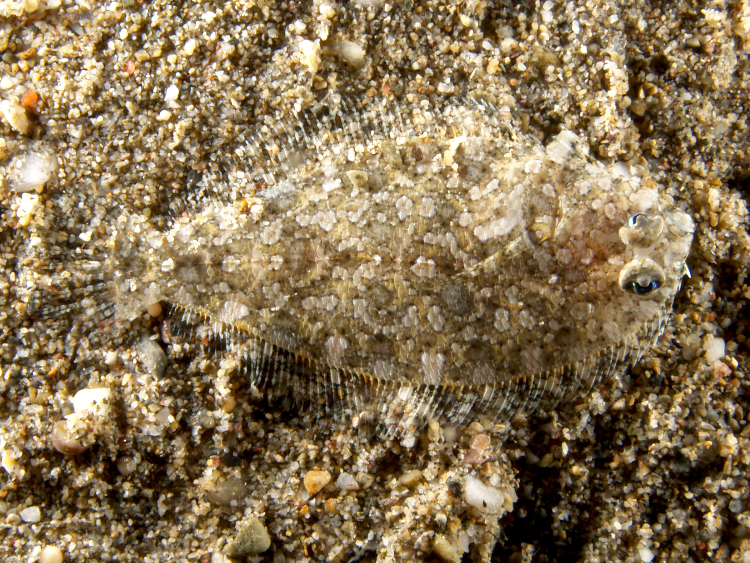 The Intermediate flounder (Asterorhombus intermedius) photographed in East Timor (Timor-Leste).